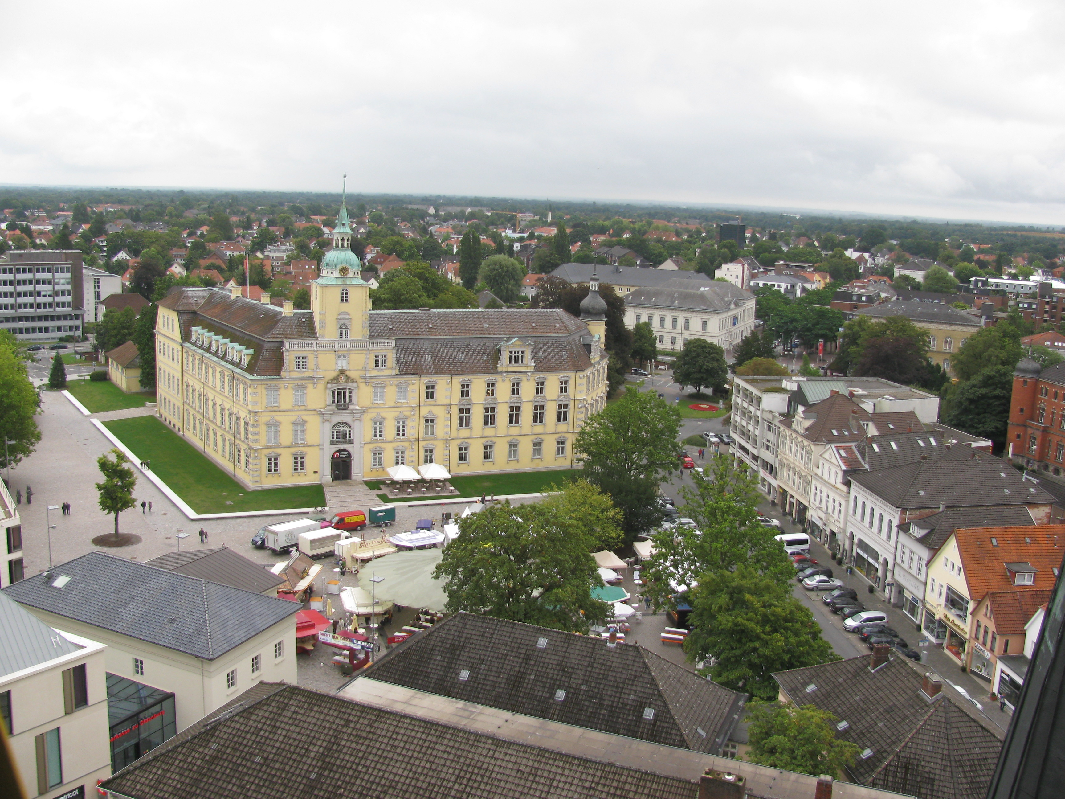 Oldenburg, Lower Saxony, Germany: View from the bell tower of St. Lambert to the castle and the wine festival.